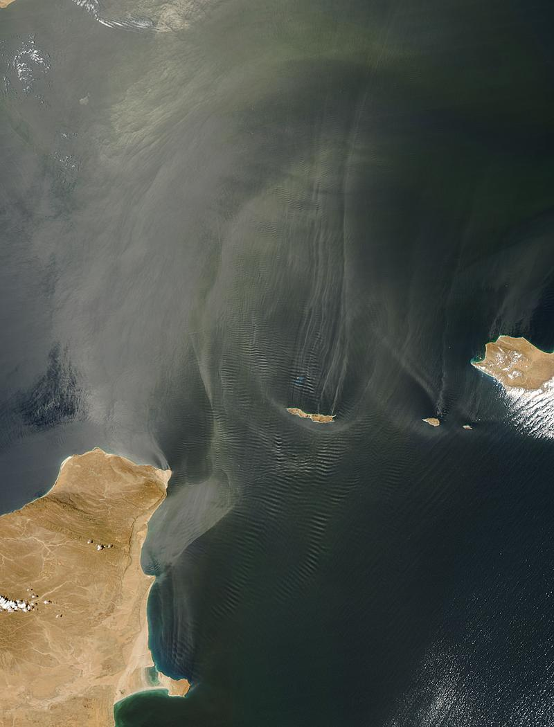 Satellite picture showing internal waves off Somalia; The northeasten part of Somalia and Suqutra island are visible